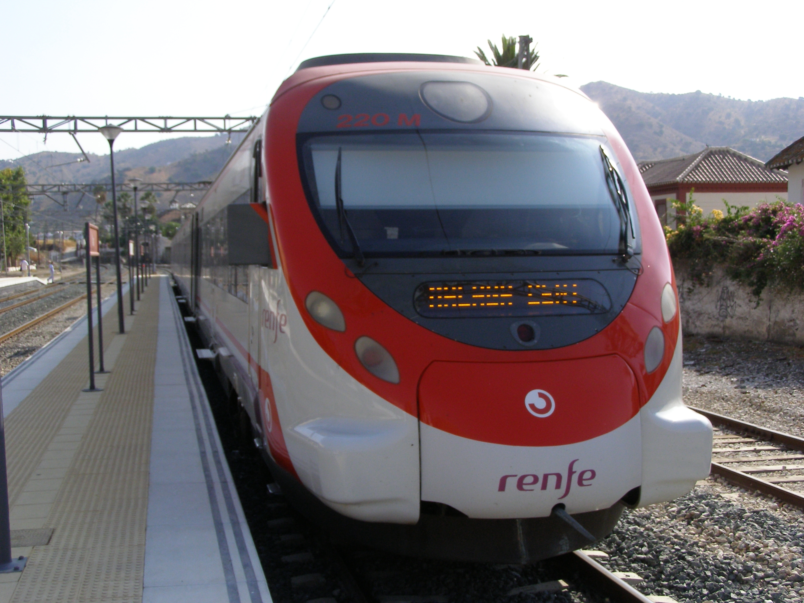 Álora - Civia 464-200 unit on line Cercanías C-2